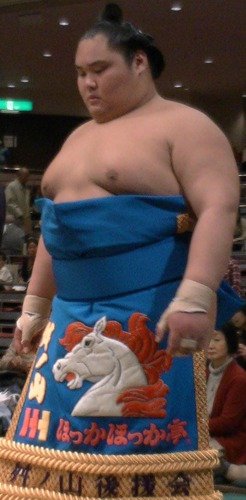 taken at 2011 Jan tournament